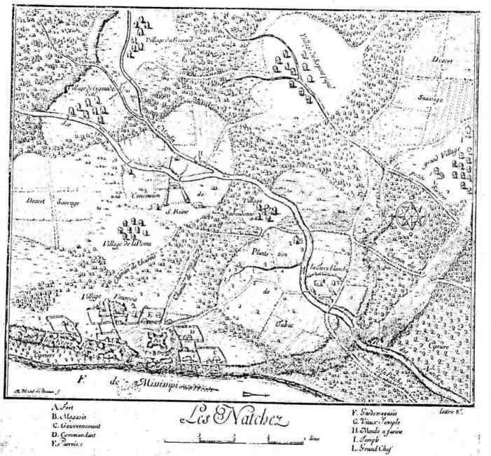 1728 map of Natchez — a French settlement in the New France colony in the 18th century. The present day town of Natchez, Louisiana.